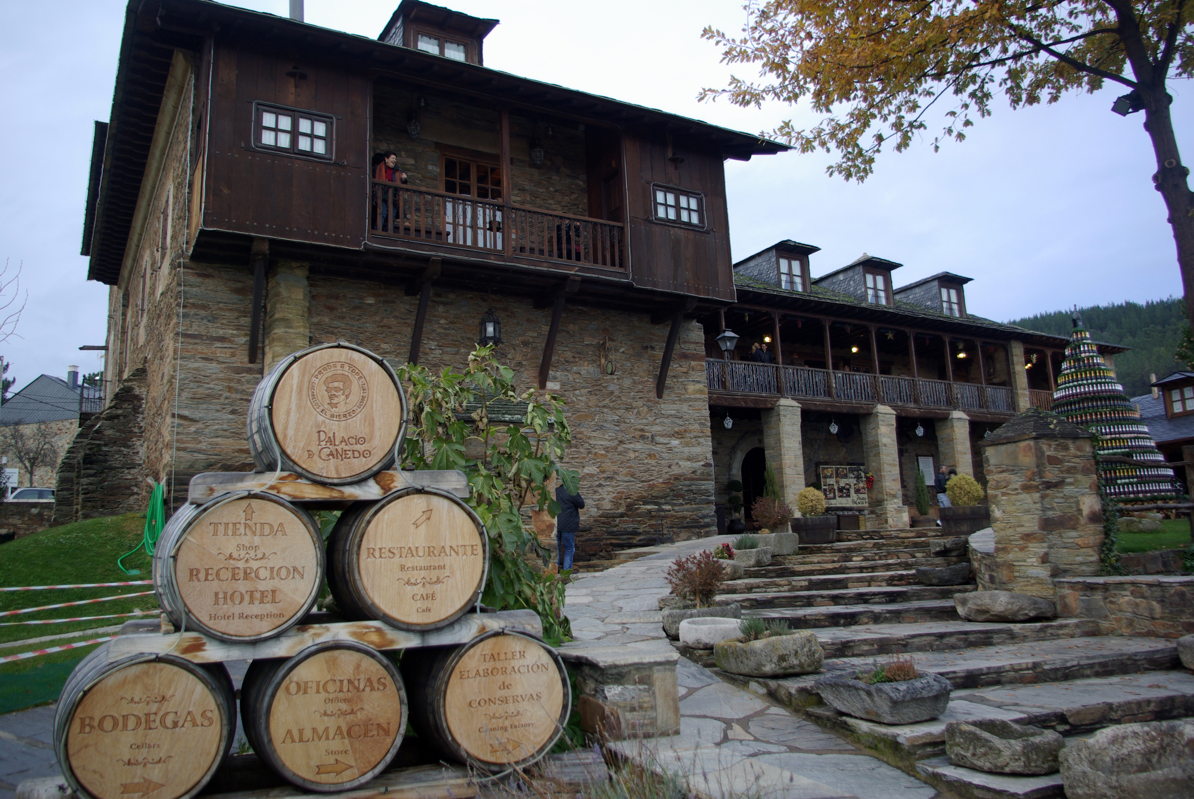 Canedo Palace, (Arganza, León, Spain)